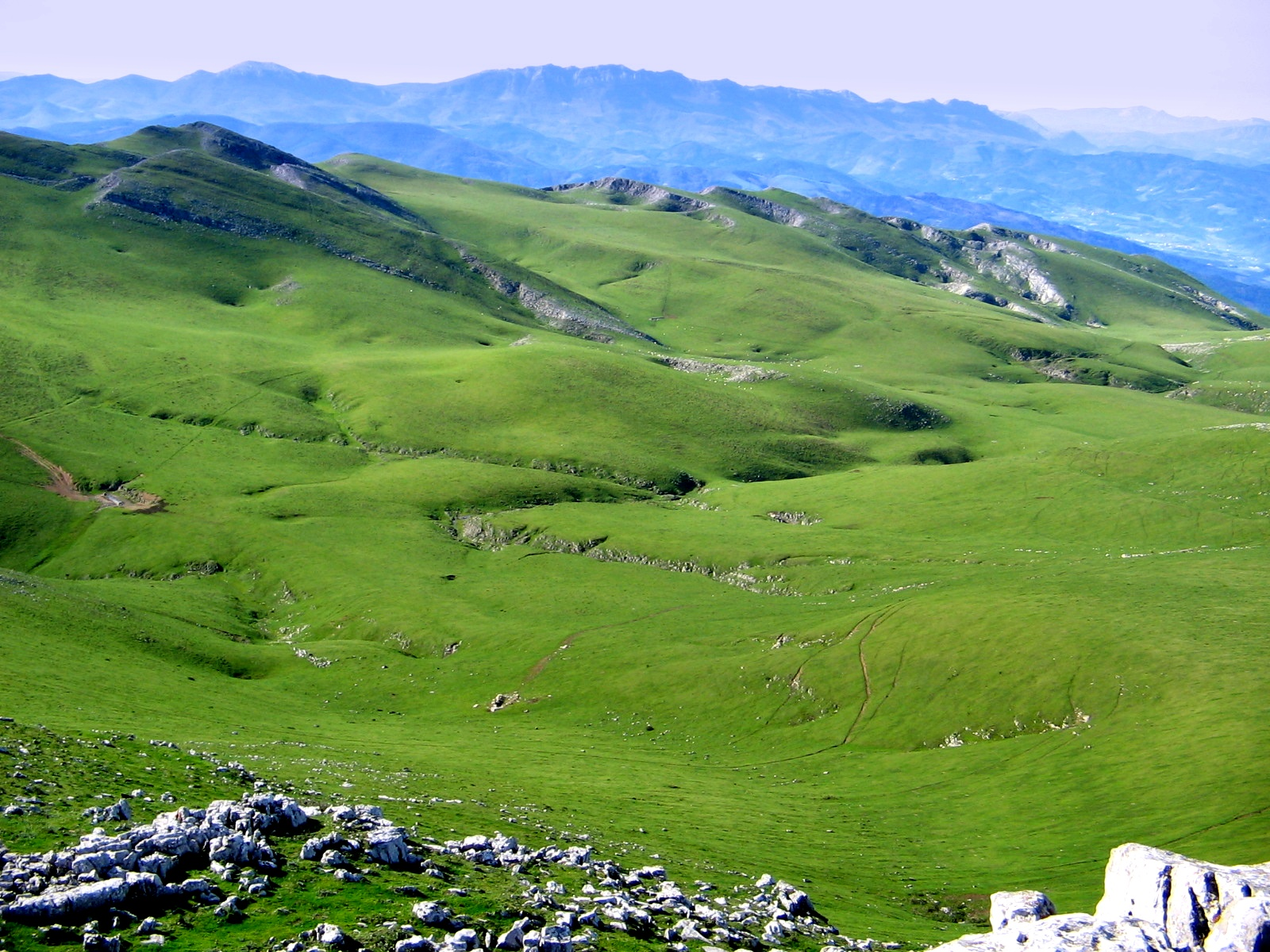 View to the SW from Ganbo Txiki in Aralar, with Aratz and the whole Aizkorri mountain range in the background